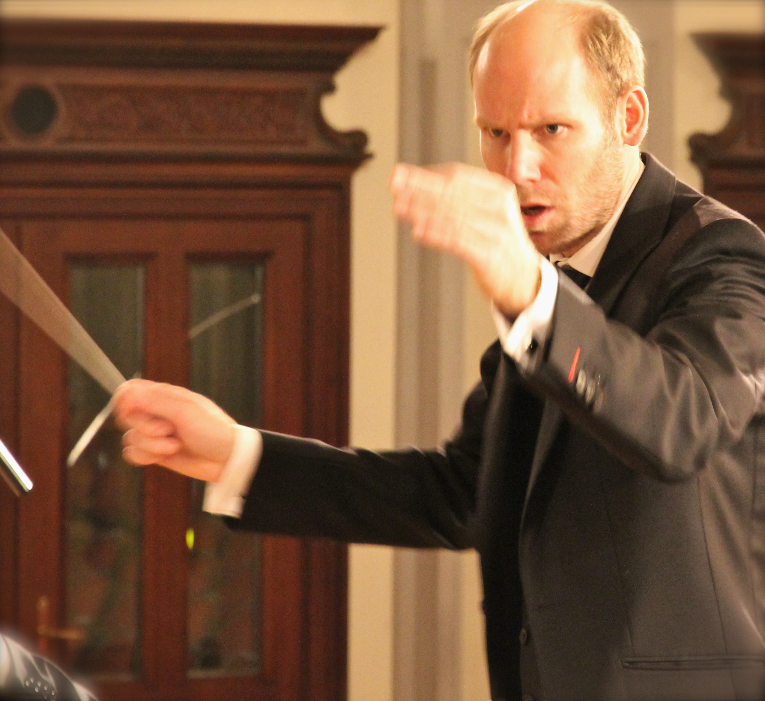 Christoph Ehrenfellner, conductor and composer